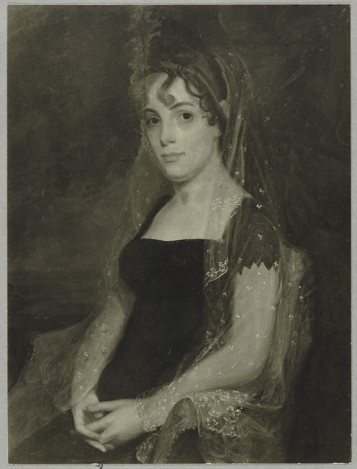 Title:Mrs. John Rodgers (Minerva Denison). Author/Artist:Jarvis, John Wesley, 1780-1840 Creation Date:c. 1806 34 x 25 1/2 in. oil on canvas.